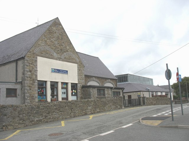 Ysgol Gymuned Llannerch-y-Medd Community School, Water Street